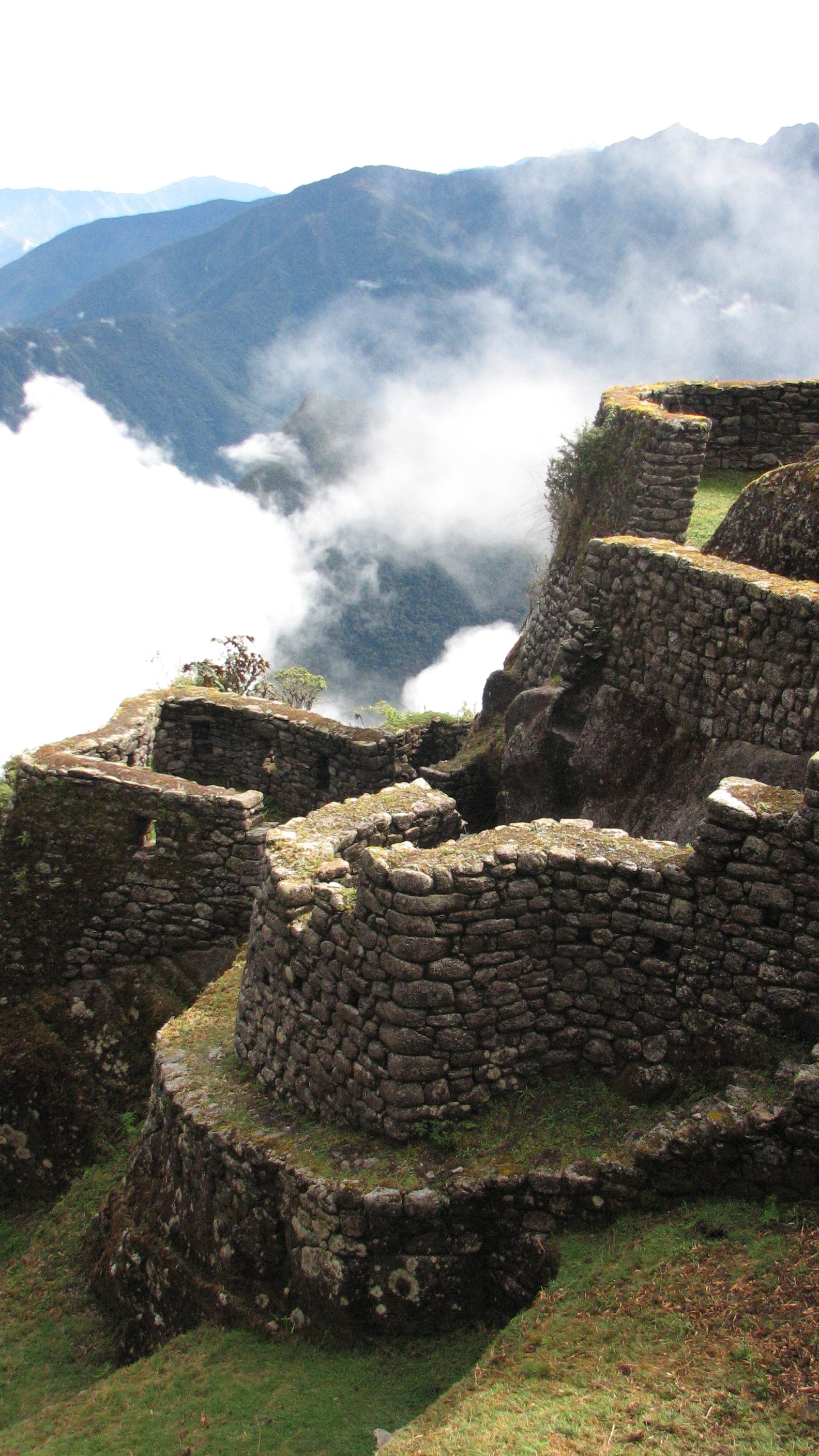 Steve Pastor own work 2008 Phuyupatamarka on the Inca Trail near Machu Picchu, Peru